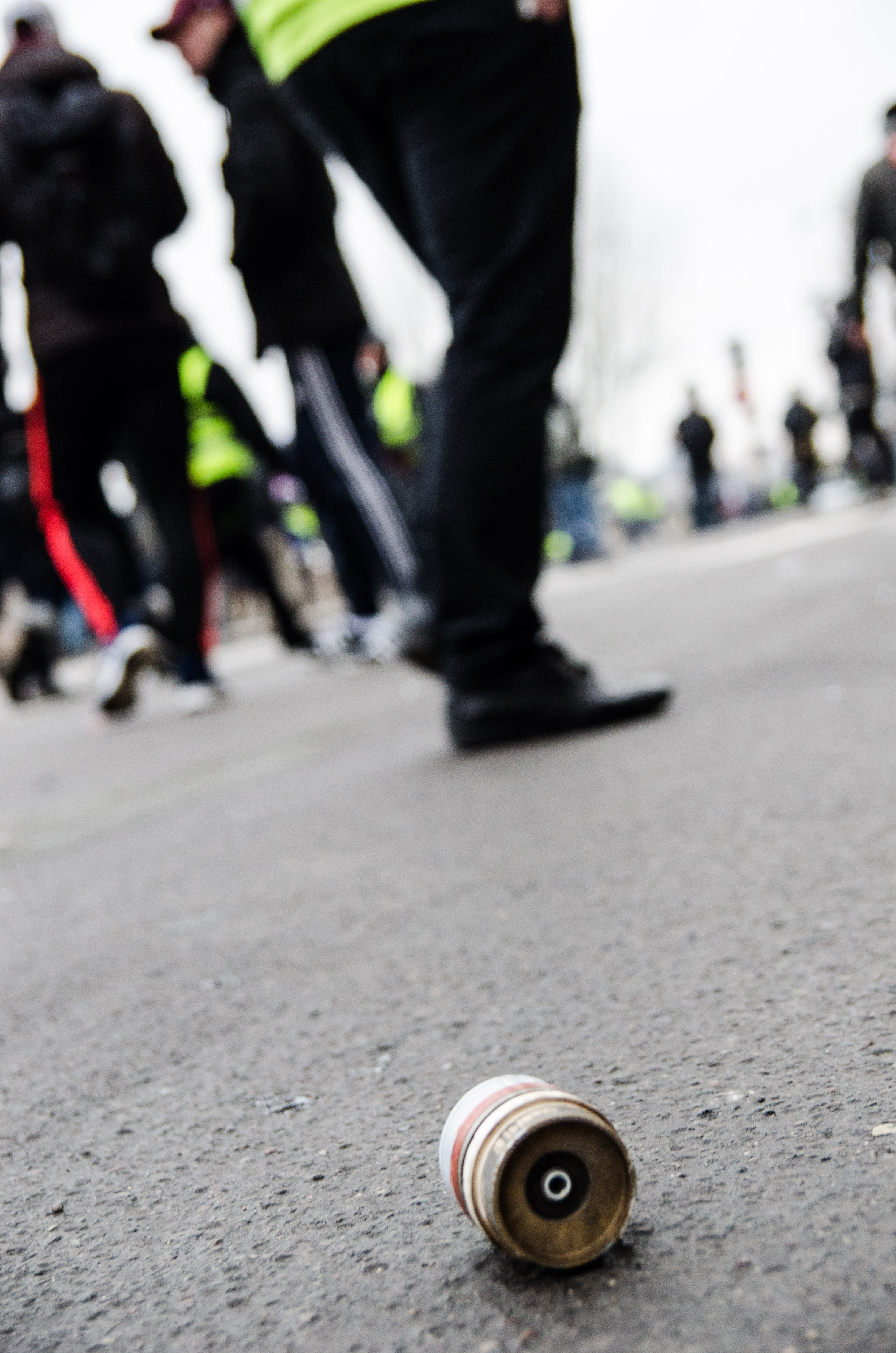 Mouvement des gilets jaunes, Paris, 05 Jan 2019